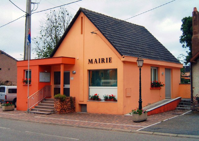 Town Hall of Zilling photographed in June 2004